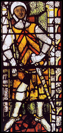 Stained glass window at Tewkesbury Abbey, Tewkesbury, Gloucestershire, depicting Gilbert de Clare, circa 1340